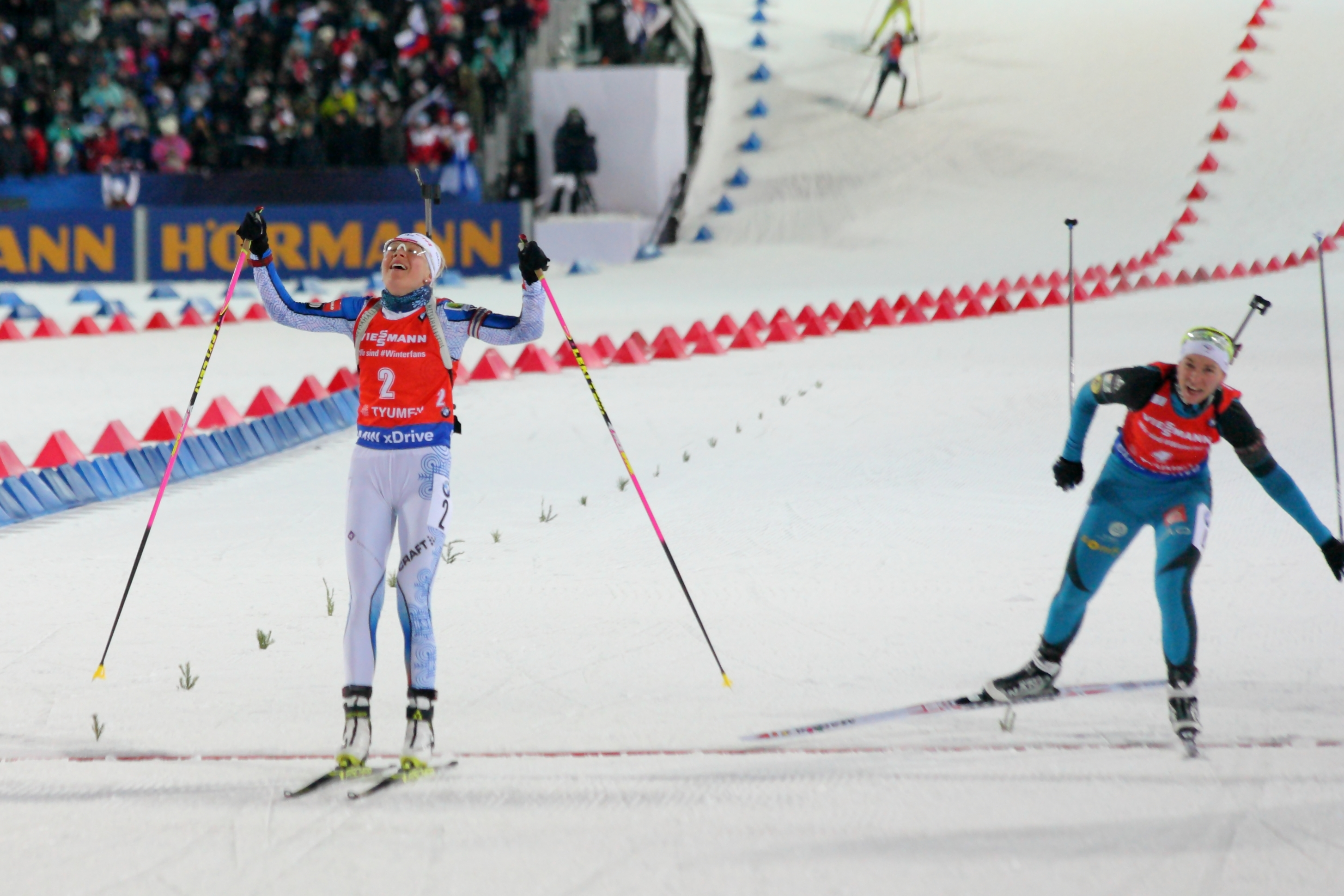 BMW IBU World Cup Biathlon 9 #TMN18 Tyumen 2018-03-24 Women 10km Pursuit